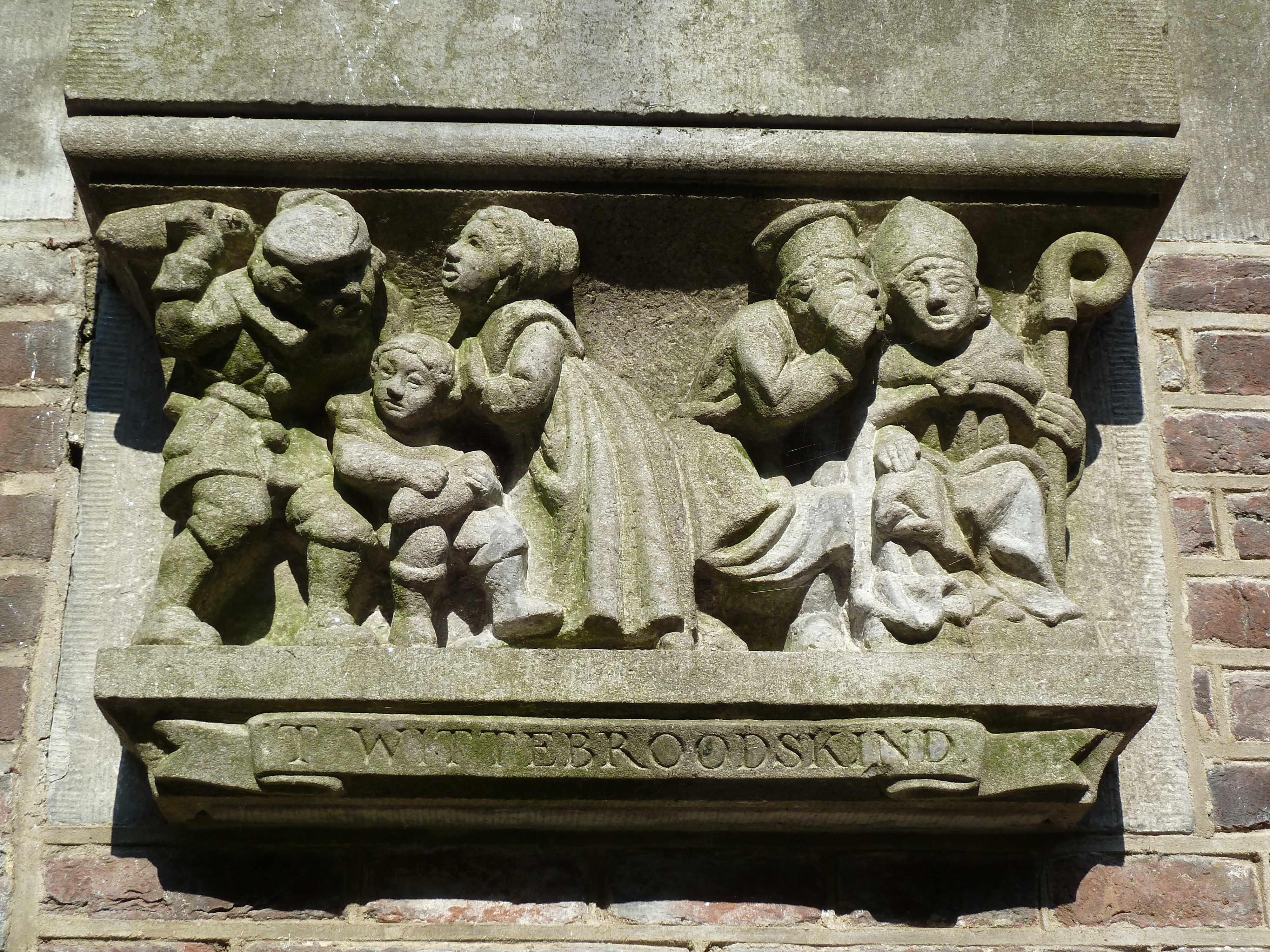 The White Bread Kid. Streetlight corbel, Licht Gaard 8, Utrecht, NL.